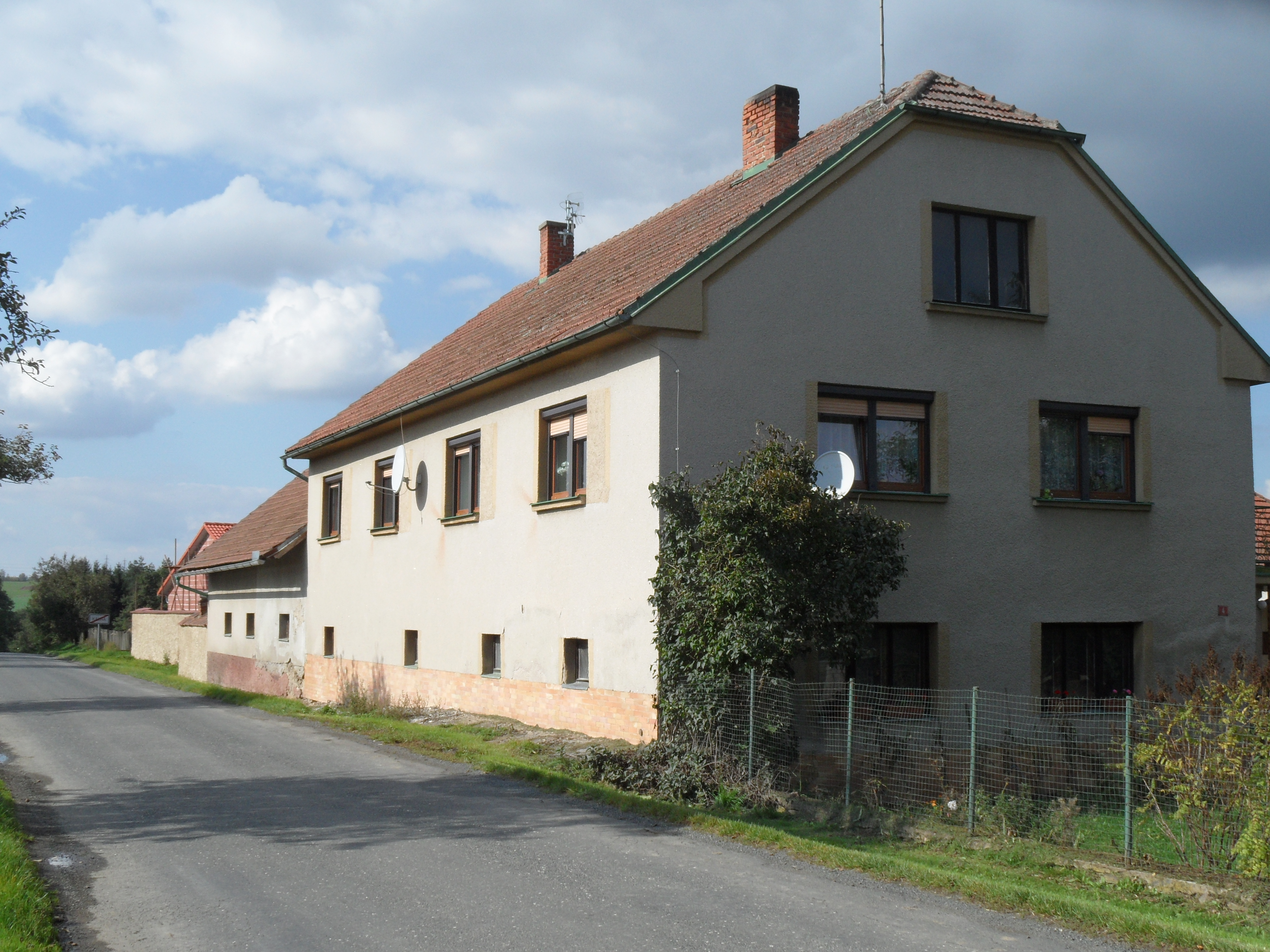 Kalná (Soutice) A. Velký dům, Kutná Hora District, the Czech Republic.